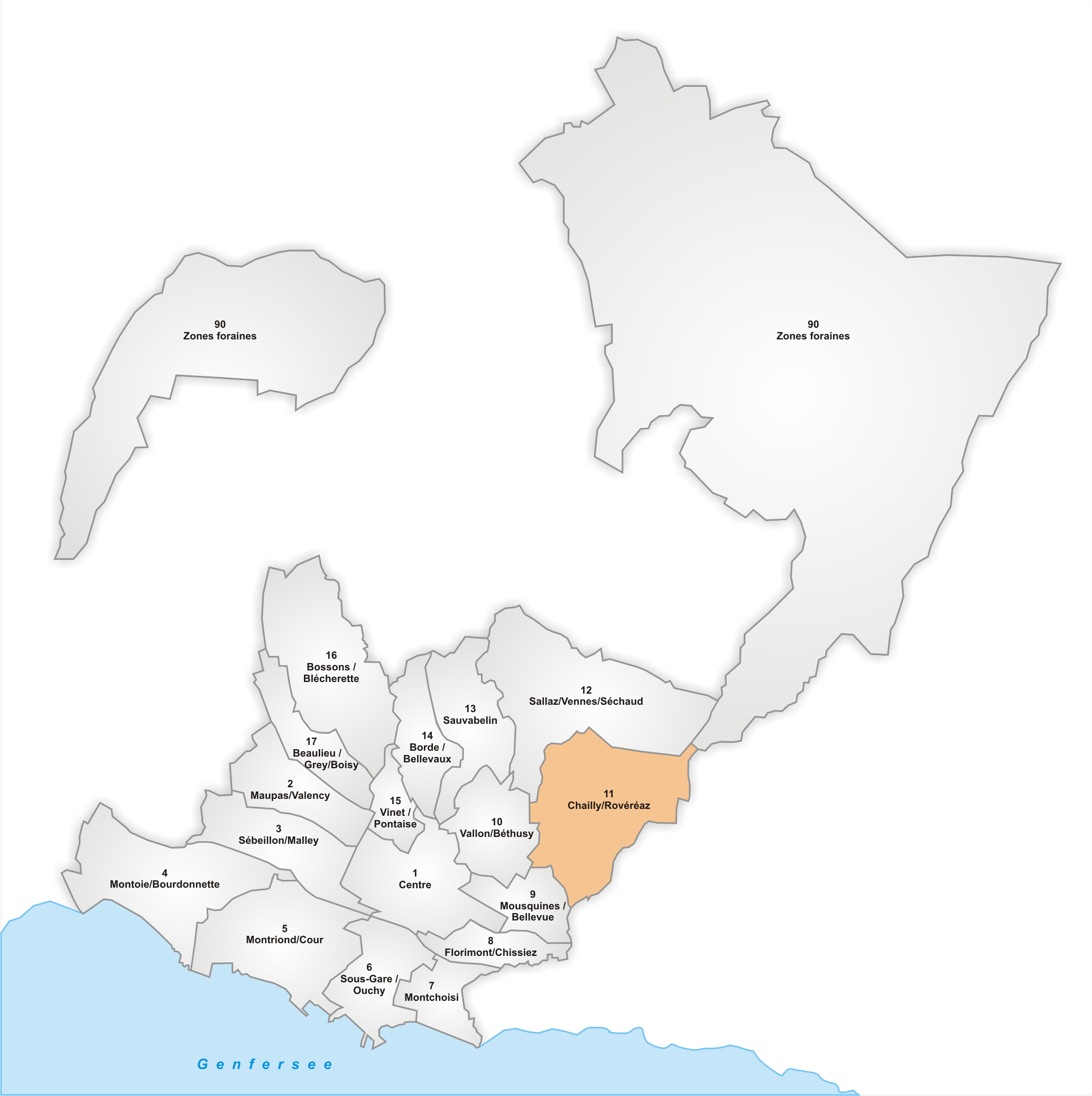 Lausanne Quarter 11